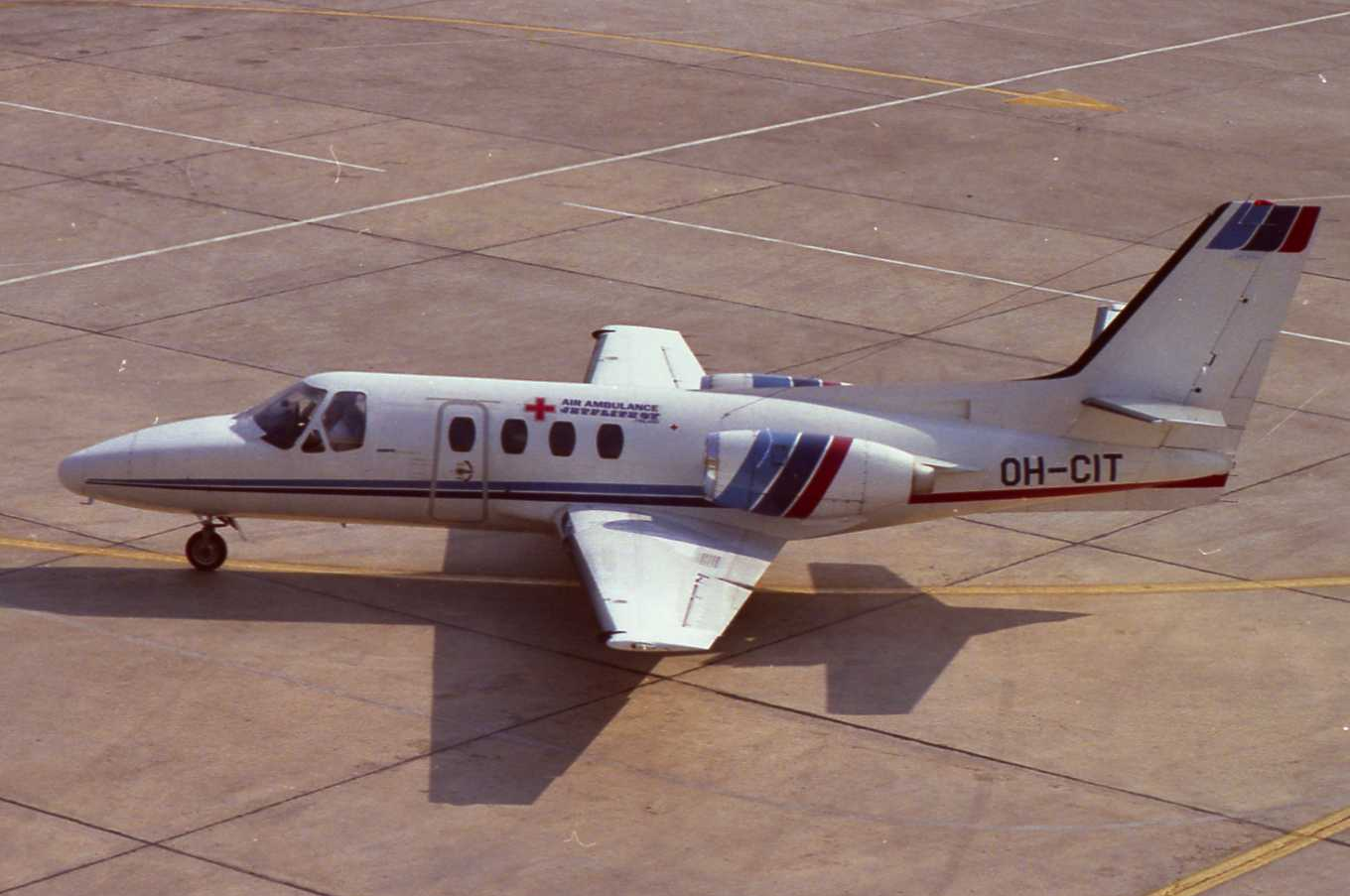 Athens 1984